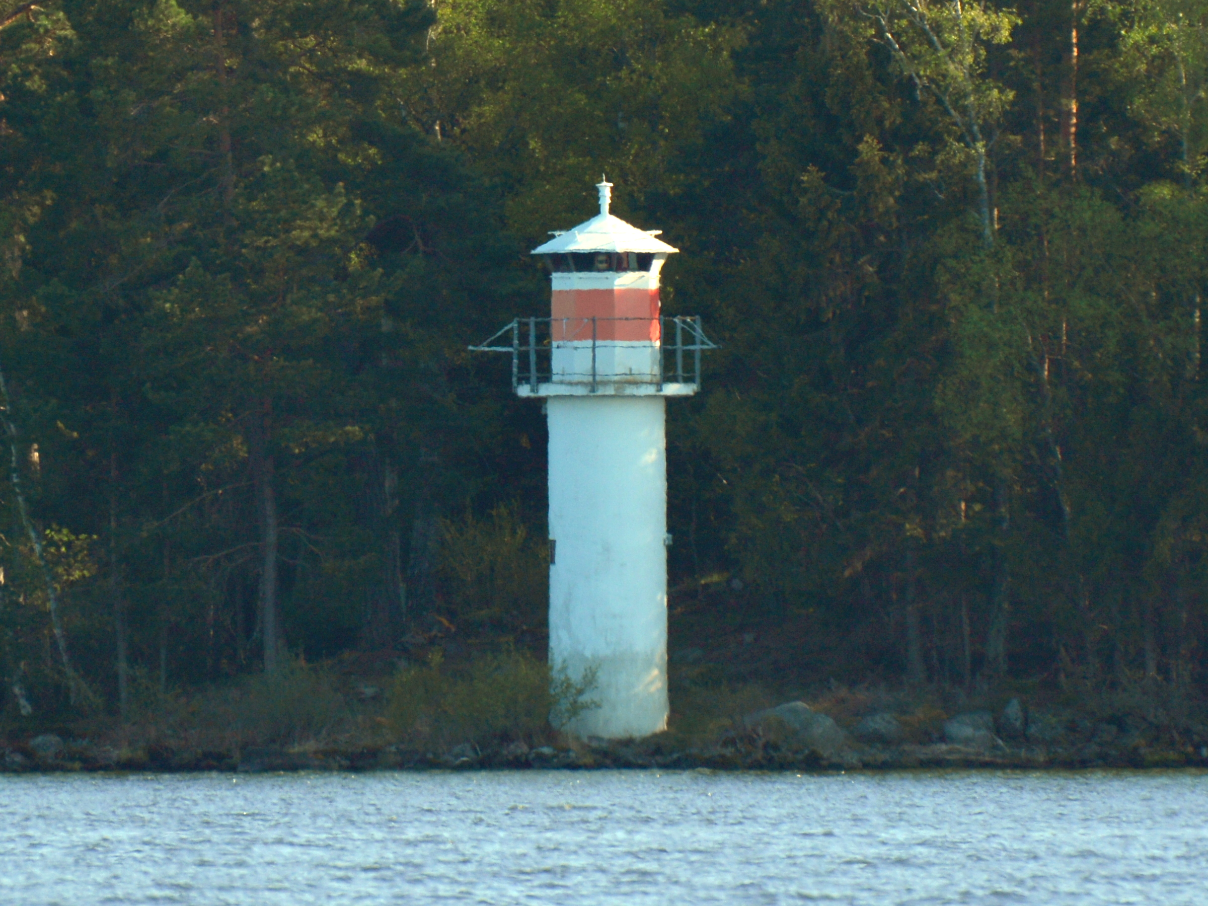 The lighthouse Kurön in lake Mälaren.